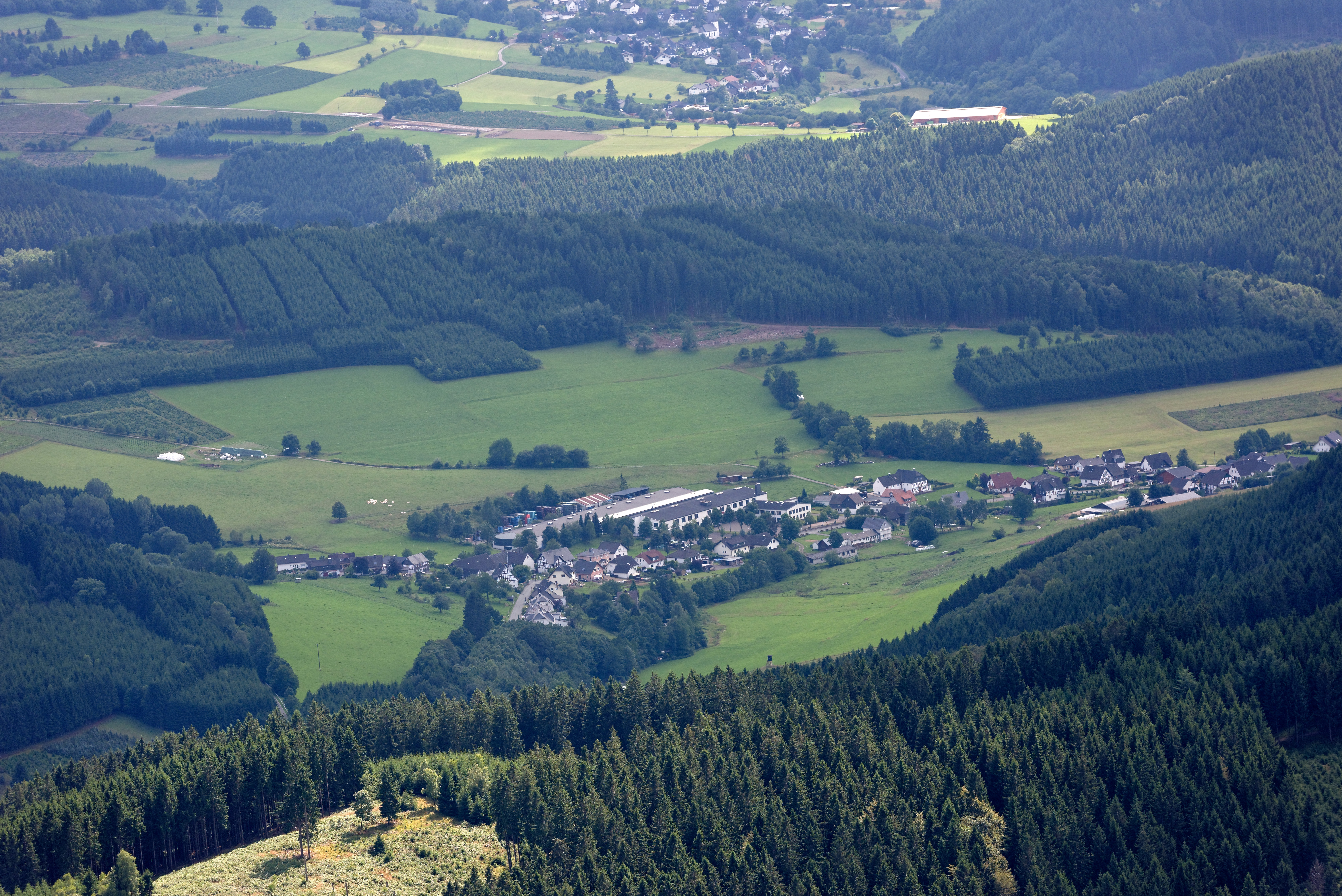 The making of this document was supported by the Community-Budget of Wikimedia Germany. Selbecke, hinten Marmecke